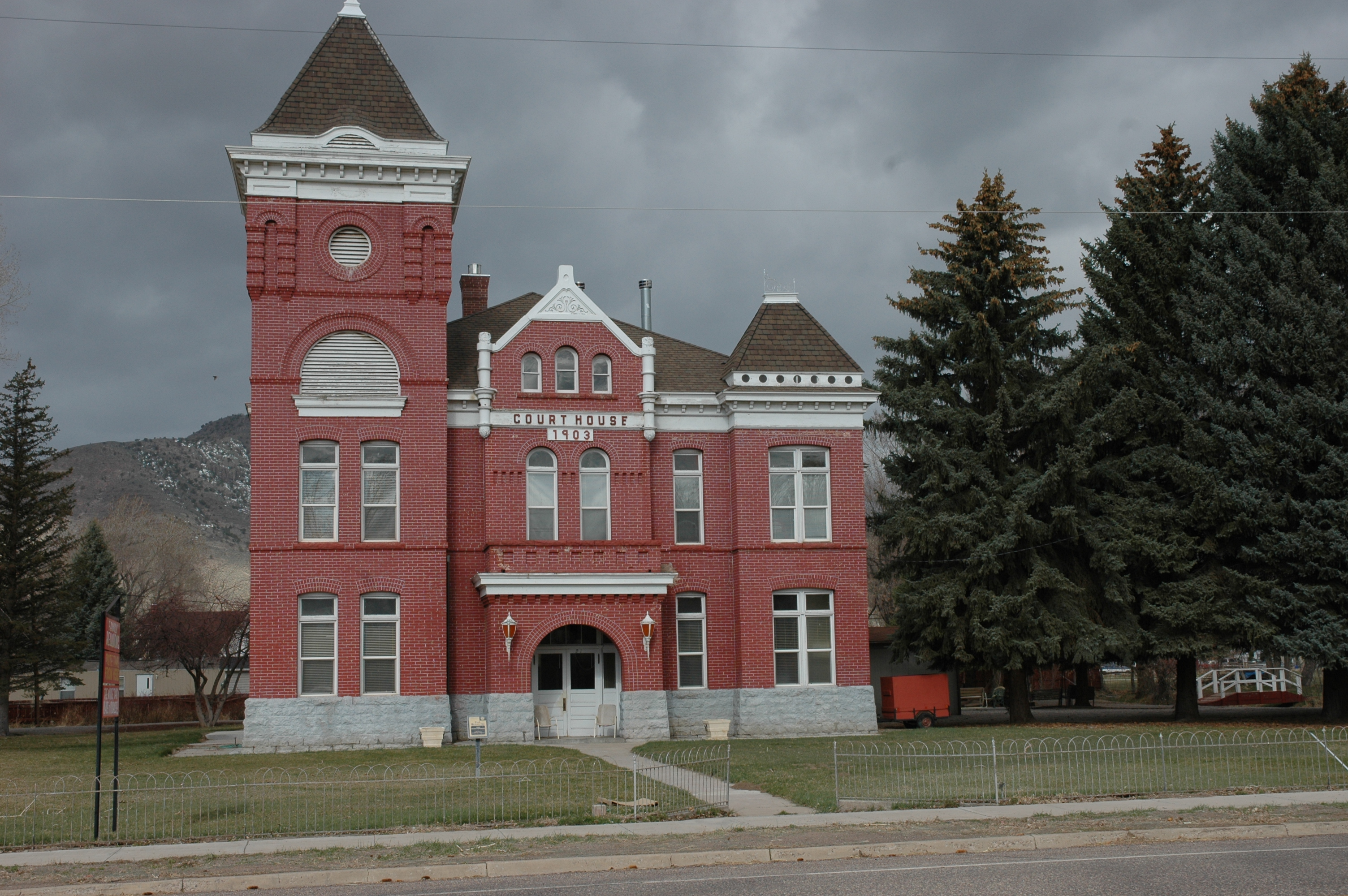 The old Piute County Courthouse, a historic building in Junction, Utah, United States.